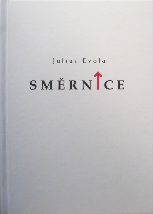 Cover of the Czech translation of the Julius Evola’s book Orientamenti. (2015)